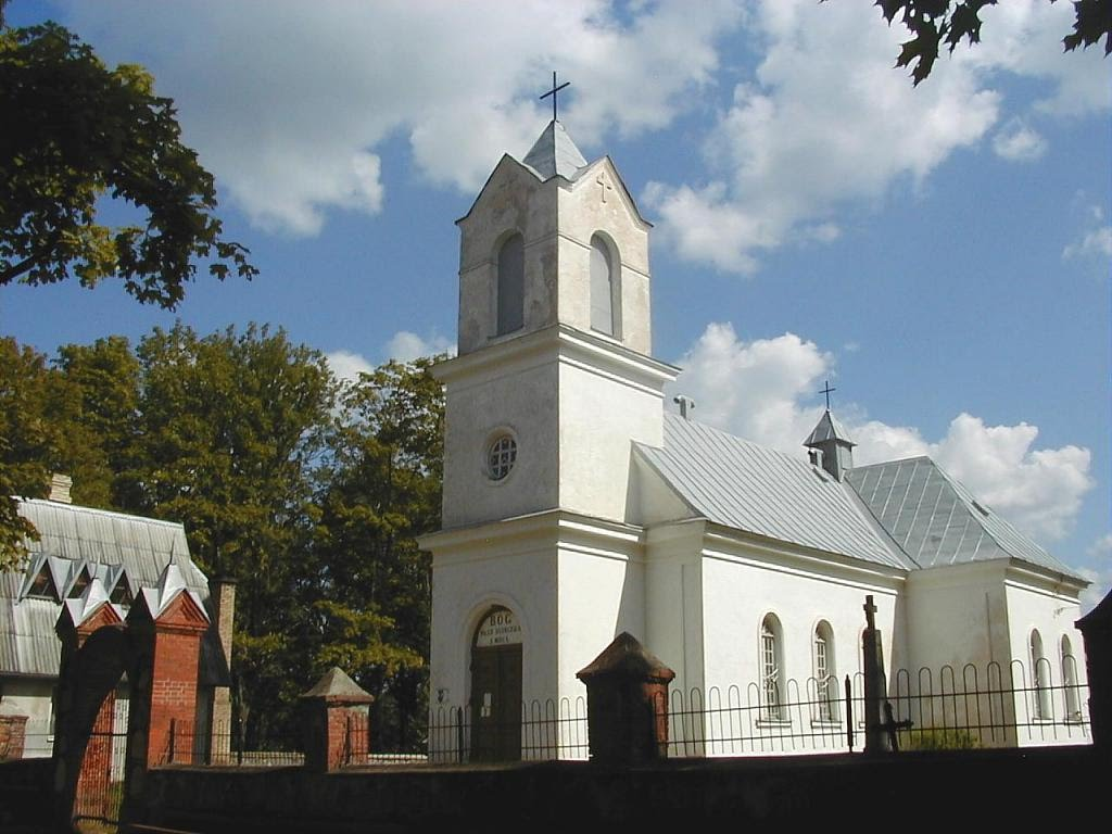 Jaunborne catholic church